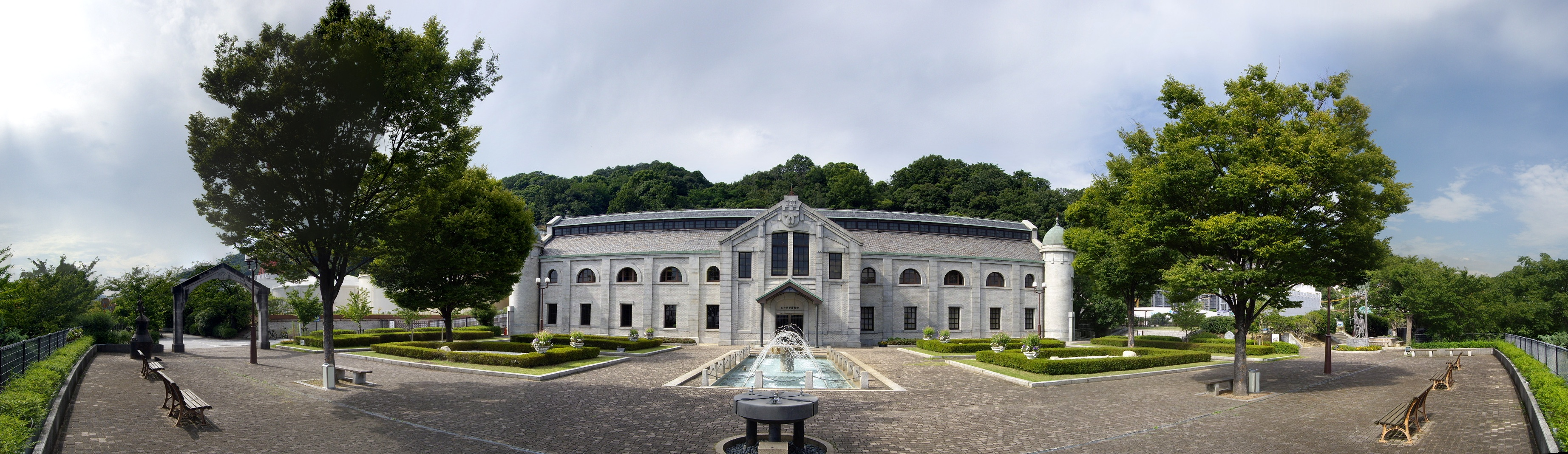 Panorama of Kobe Water Science Museum